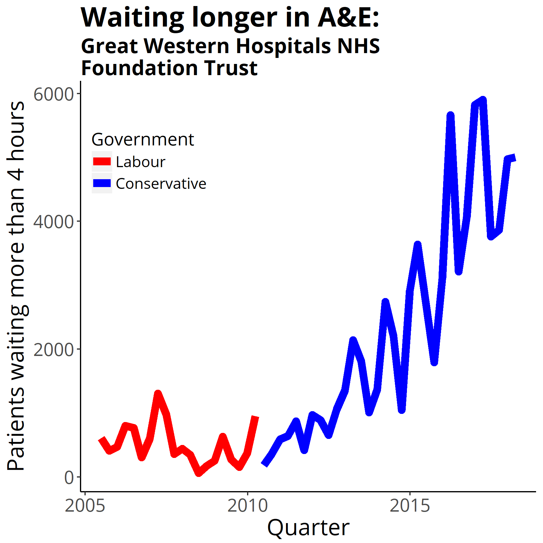 Four-hour target in the emergency department quarterly figures from NHS England Data from